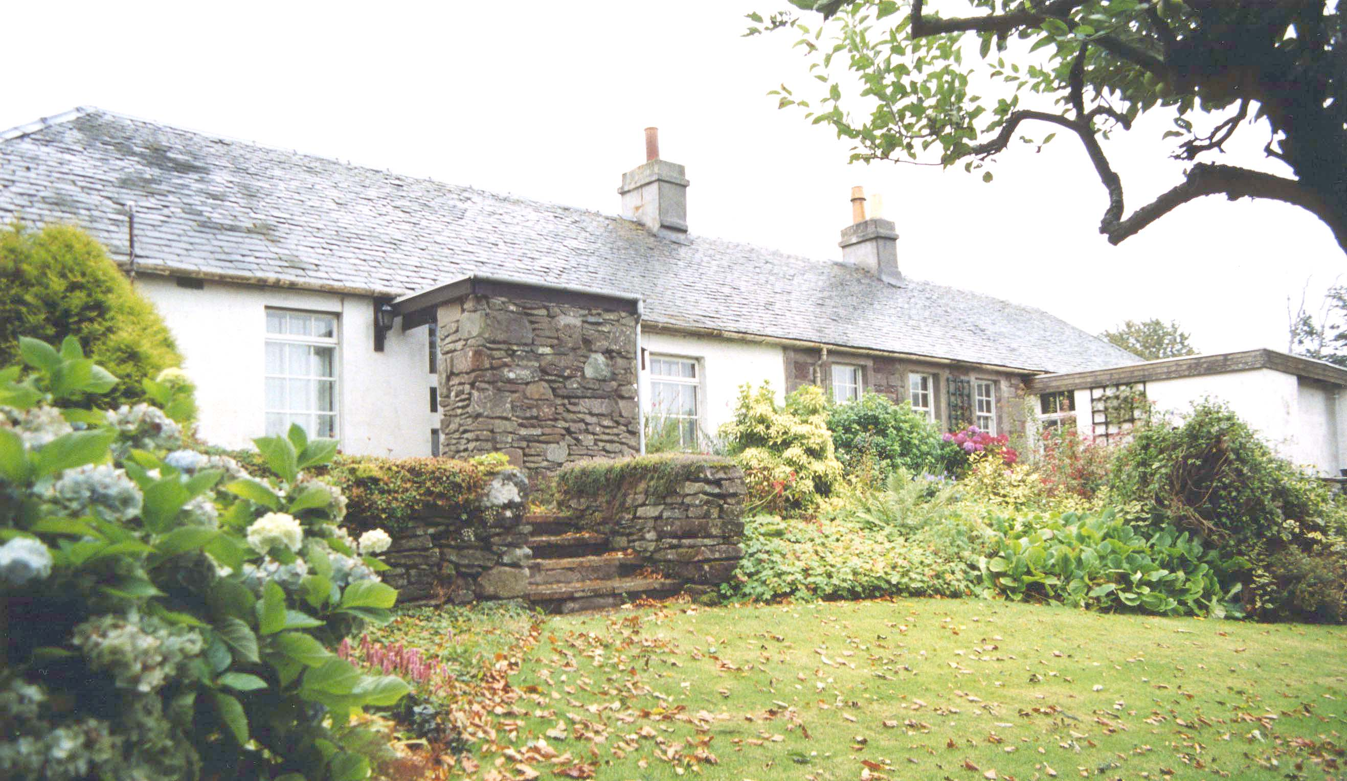 Rosebank Cottage, Cardross, Scotland; Birthplace of the writer A. J. Cronin photo from personal collection of Rosebank Cottage, Cardross, Scotland